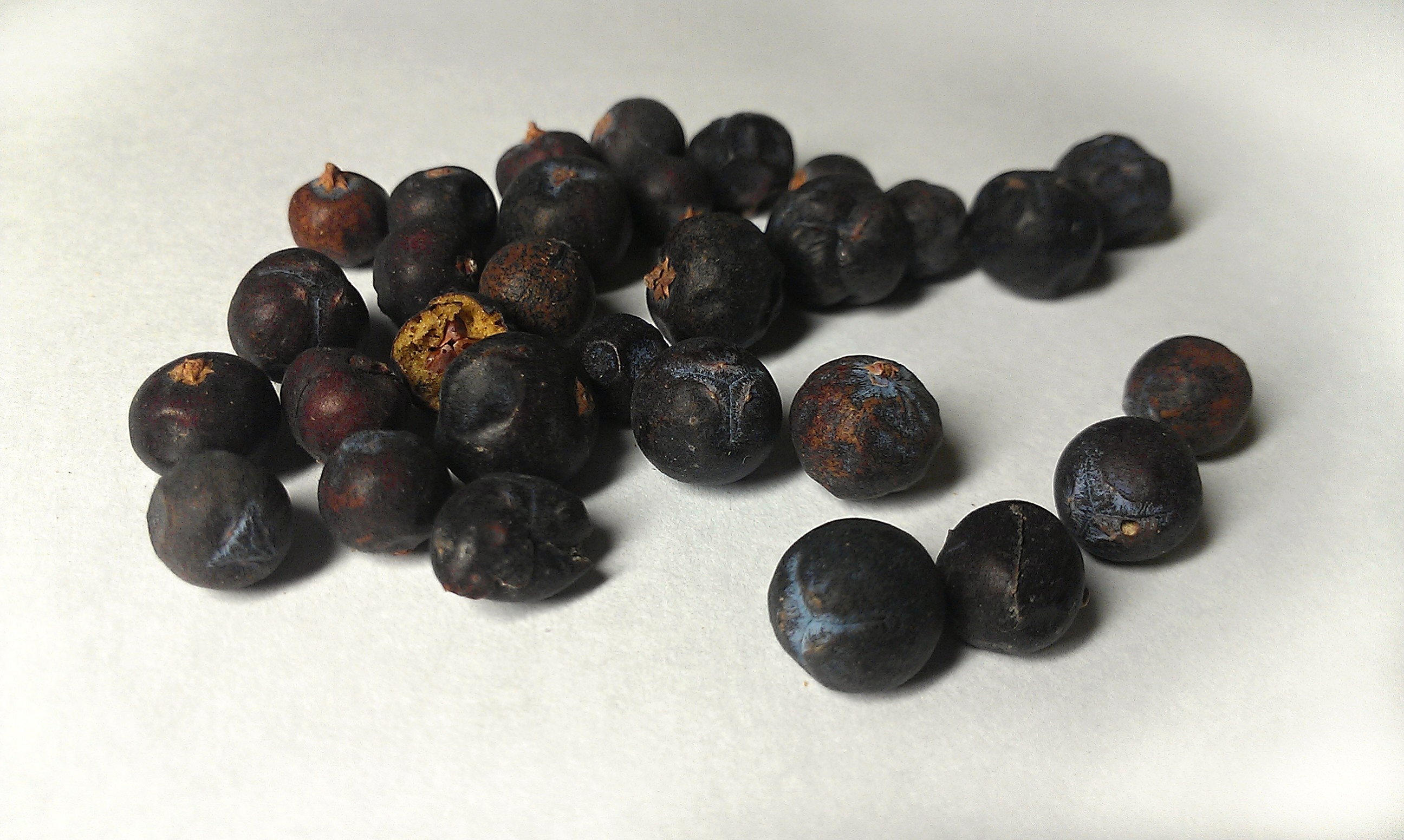 Fruit / spice of Juniperus communis